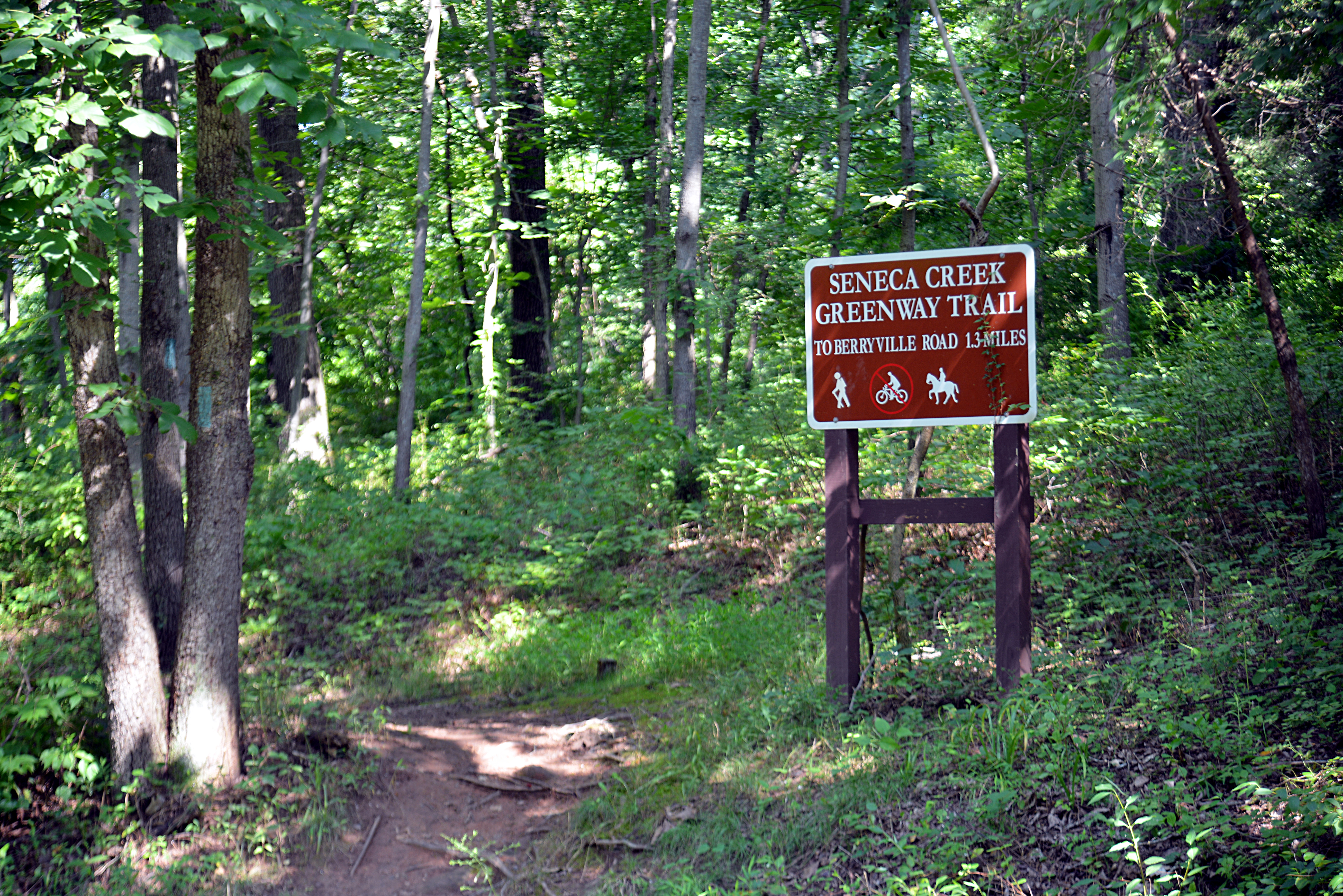 The entrance to Seneca Creek Greenway trail at Seneca Rd in Darnestown, MD. There is a sign for the trail and it gives the distance to Berryville Rd of 1.3 miles.